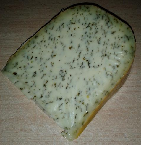 Cheese with bear leekLatina: Caseus cum Allium ursinum